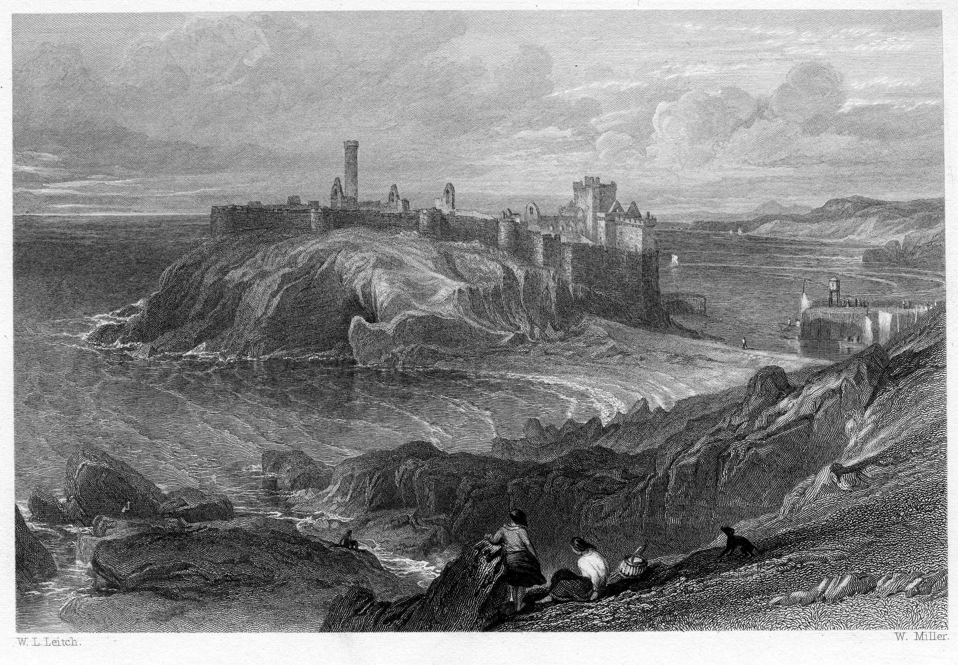 Peel Castle, Isle of Man engraving by William Miller after W L Leitch, published in Waverley Novels vol vii (Abbotsford Edition). Walter Scott. Edinburgh and London: Robert Cadell, Houlston & Stoneman 1842 - 1847